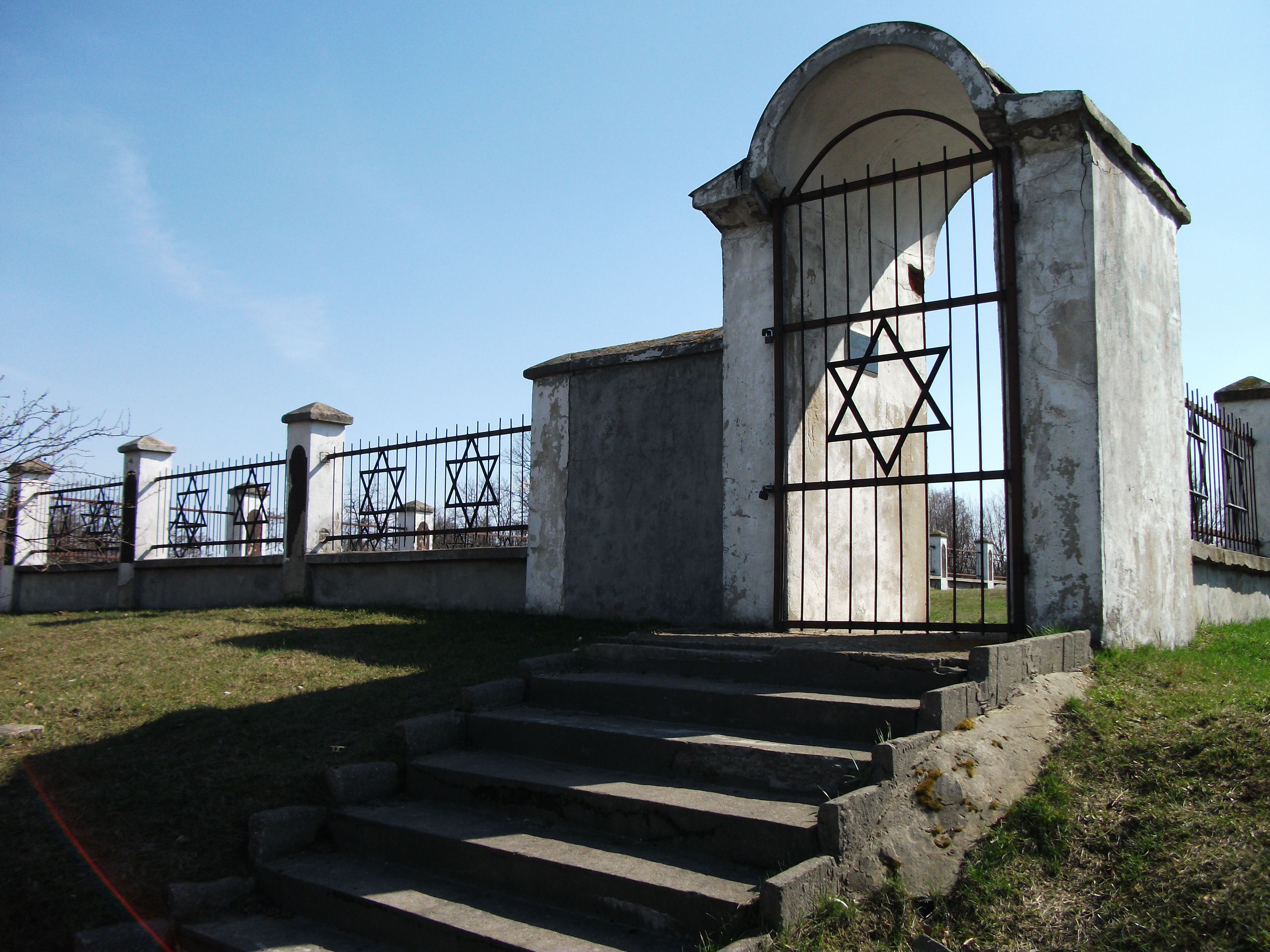 Jewish cemetery in Zgierz